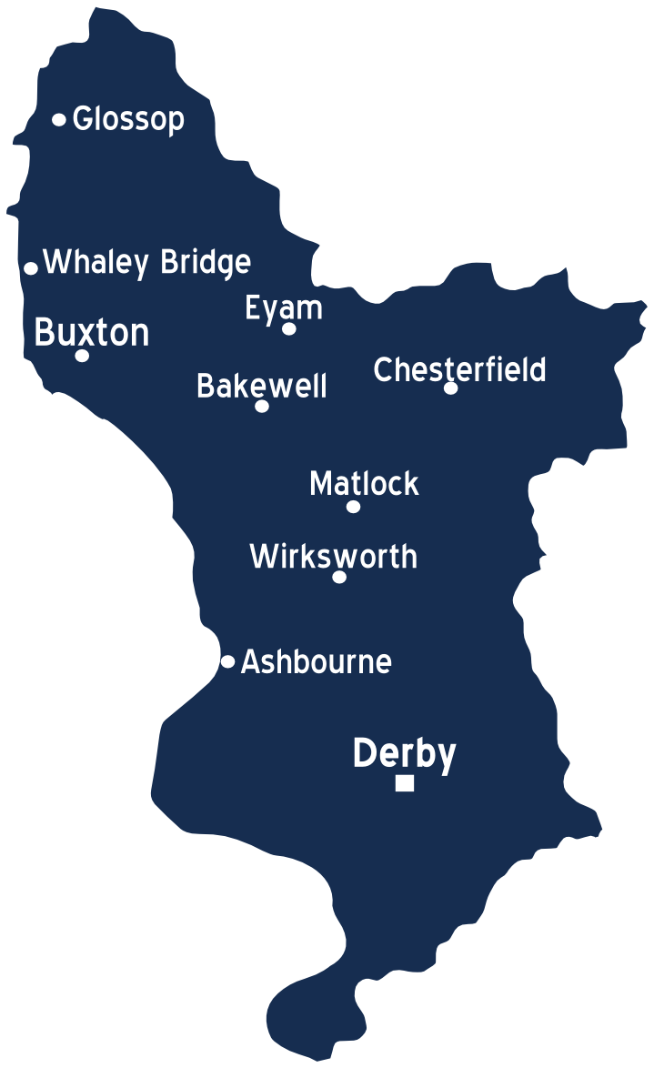 Map of Derbyshire Source: :Image:UK map.svg map: United Kingdom Map of: United Kingdom